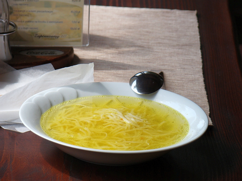 Category:Chicken soup